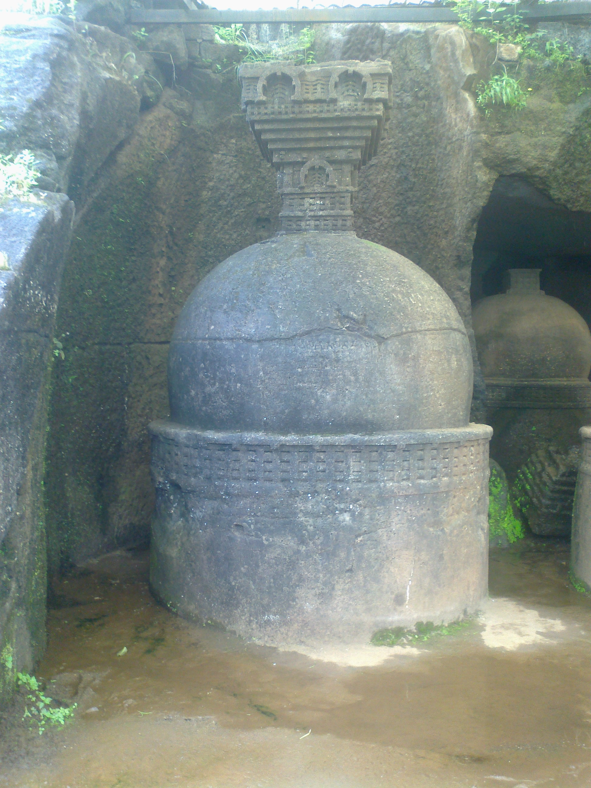 Bhaja Caves temple and Inscription,Pune.